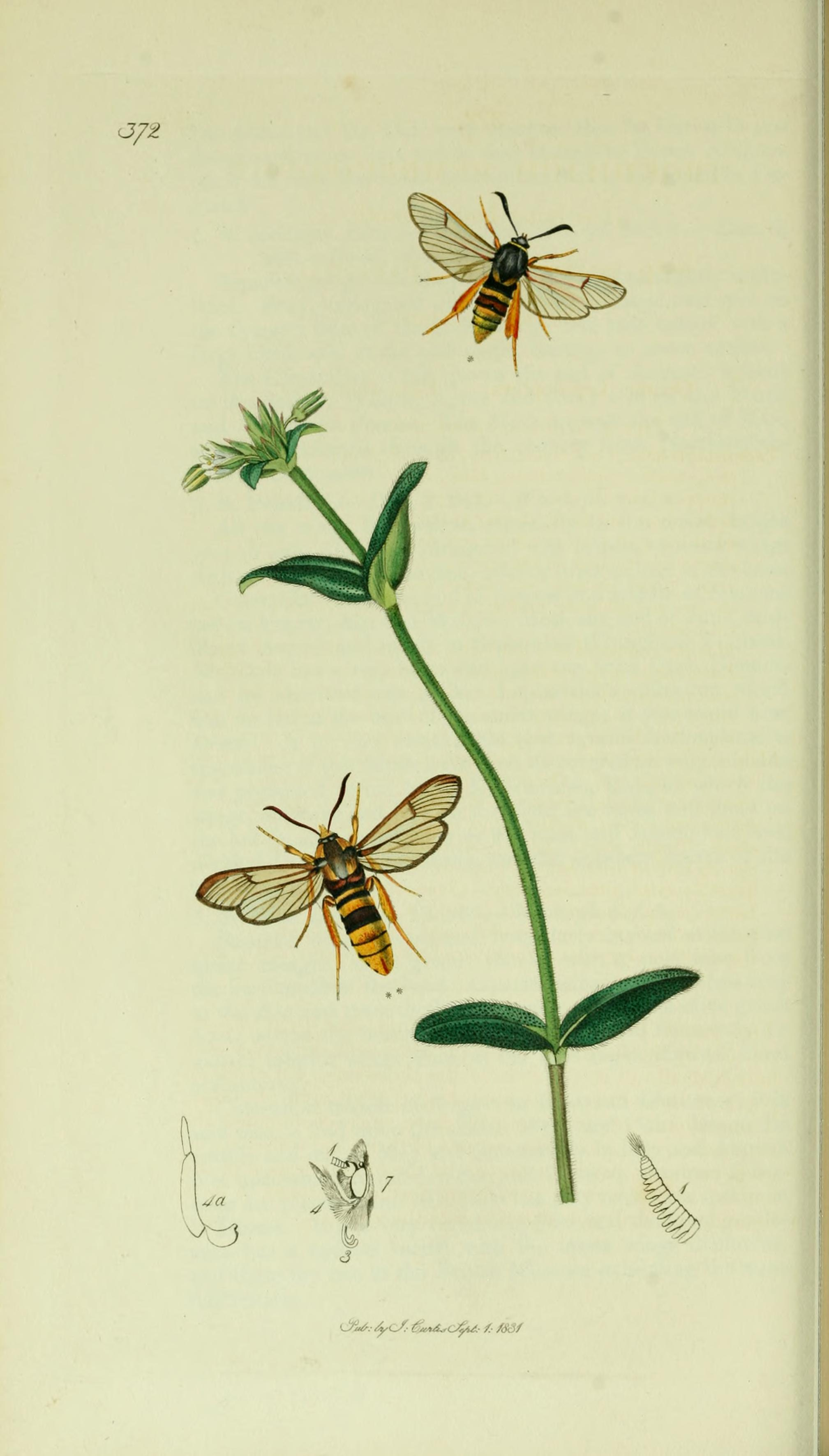 An illustration from British Entomology by John Curtis. Trochilium bembeciforme or Secia bembeciformis (Lunar Hornet Clearwing) and Trochilium apiforme Sesia apiformis (Hornet-moth)?